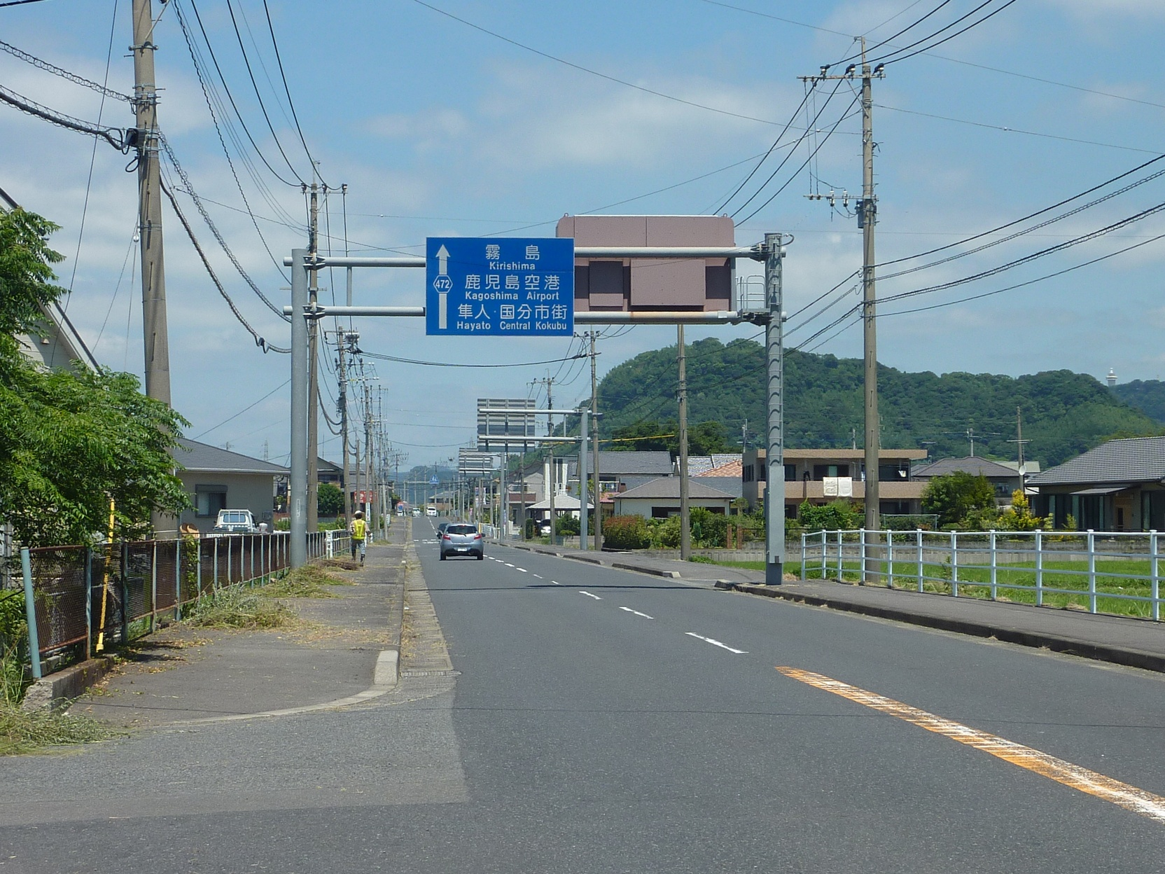 Kagoshima Prefectural Road No.472:Hinatayama-Shikine Line (Kokubu-Shitai, Kirishima City, Kagoshima, Japan)